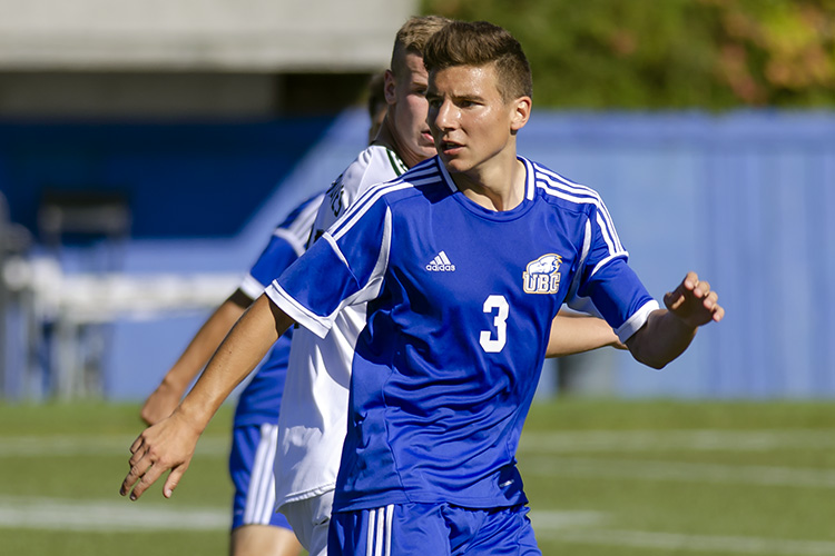 Photo of Canadian soccer player, Chris Serban